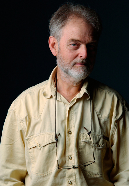 Portrait of Stephen Dalton (photographer). Please contact ( for further usage info.